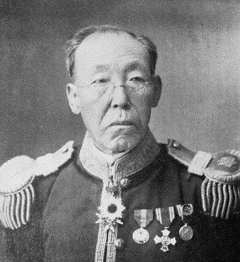 Hisayoshi Kano